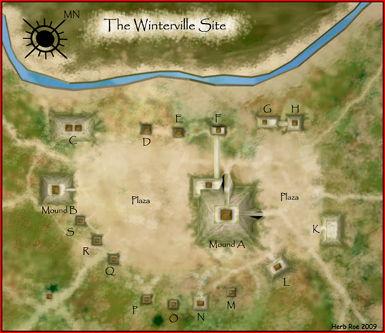 A map of the Winterville Site, a Mississippian culture mound site near Greenville, Mississippi.